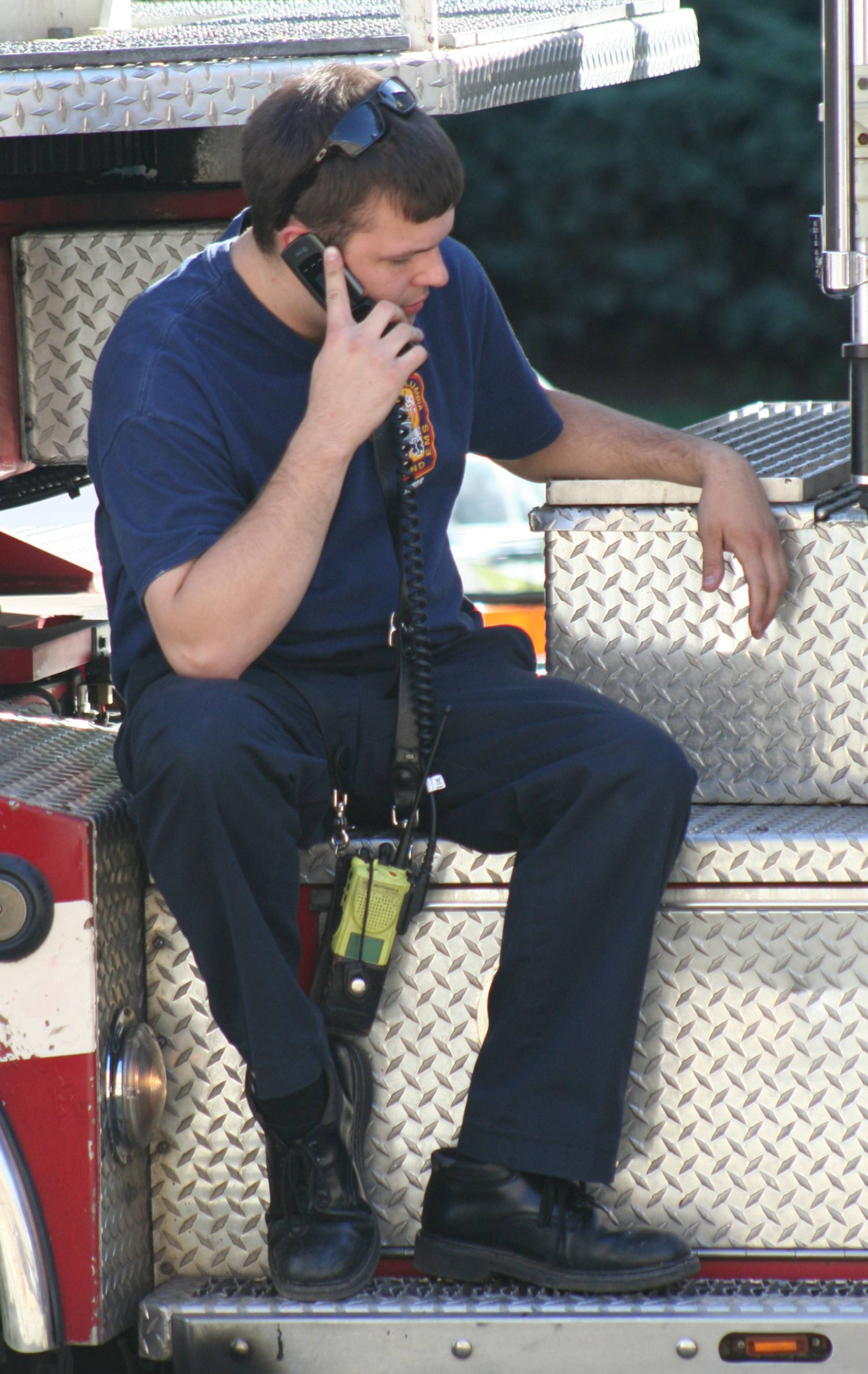 A firefighter with the District of Columbia Fire and Emergency Medical Services Department (DCFEMS, also known as DCFD) communicates with a dispatcher via his official mobile device while attending to an emergency in Washington, D.C., in the United States.